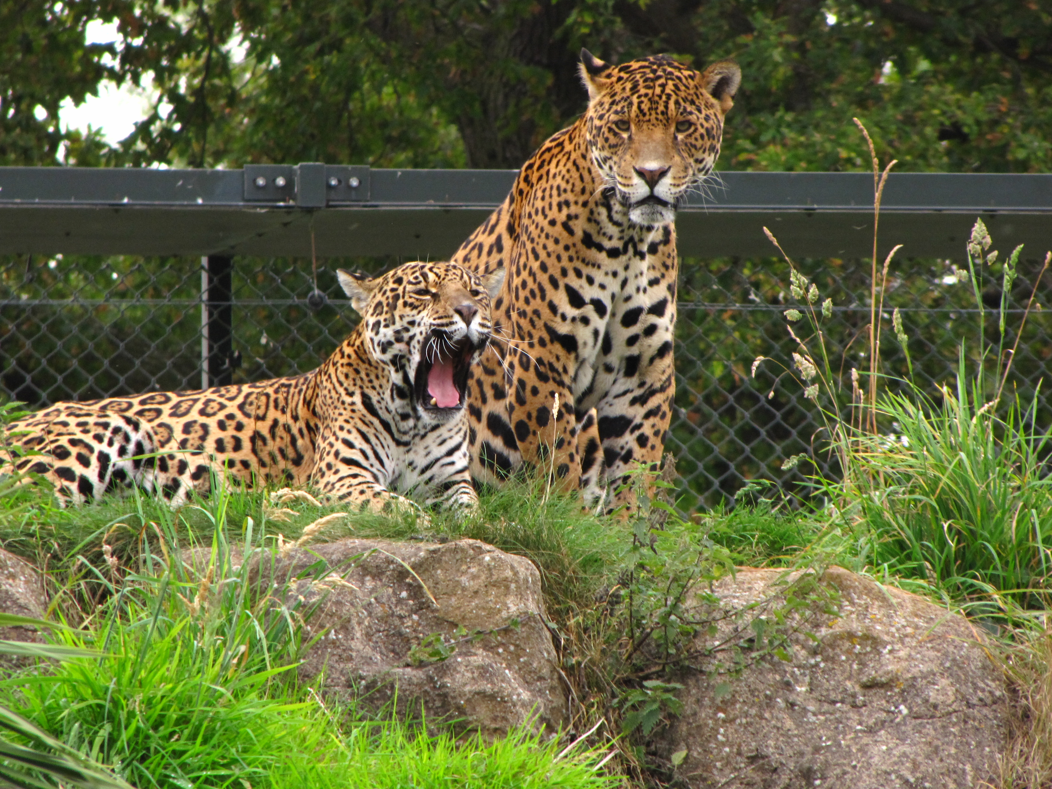 A Jaguar at Chester Zoo, Cheshire, England.